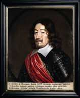 Johann of Reumont, Commander of the troops in Münster, Westphalia, Germany, during the negotiation for the Peace of Westphalia.